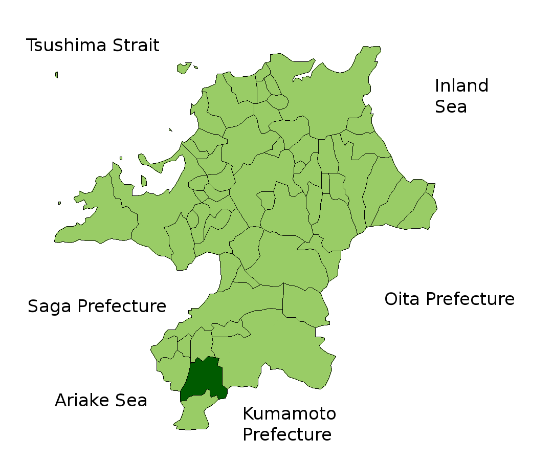 Location Map of Miyama in Fukuoka Prefecture, Japan